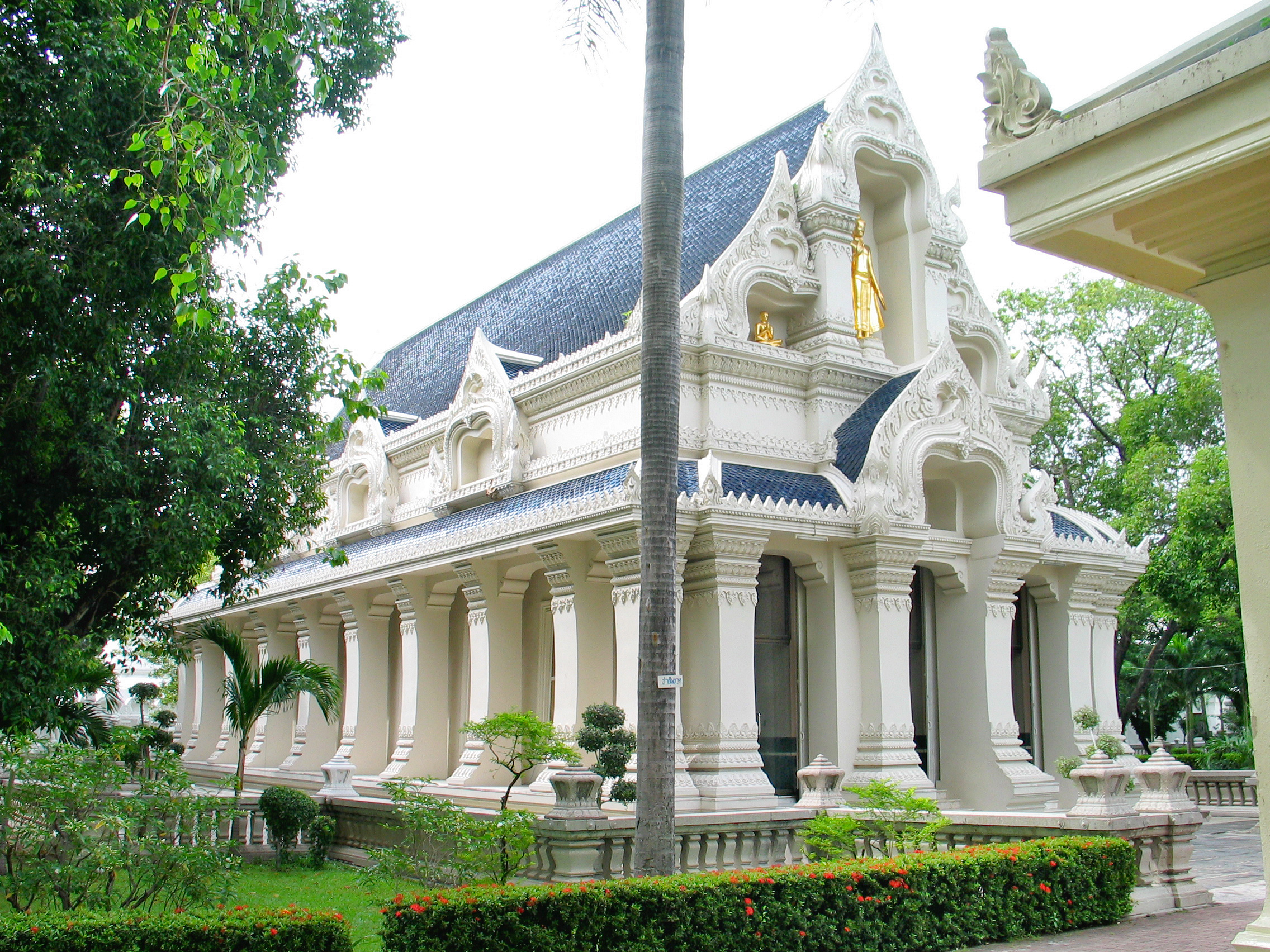 Wat Ratchathiwat, Bangkok, Thailand